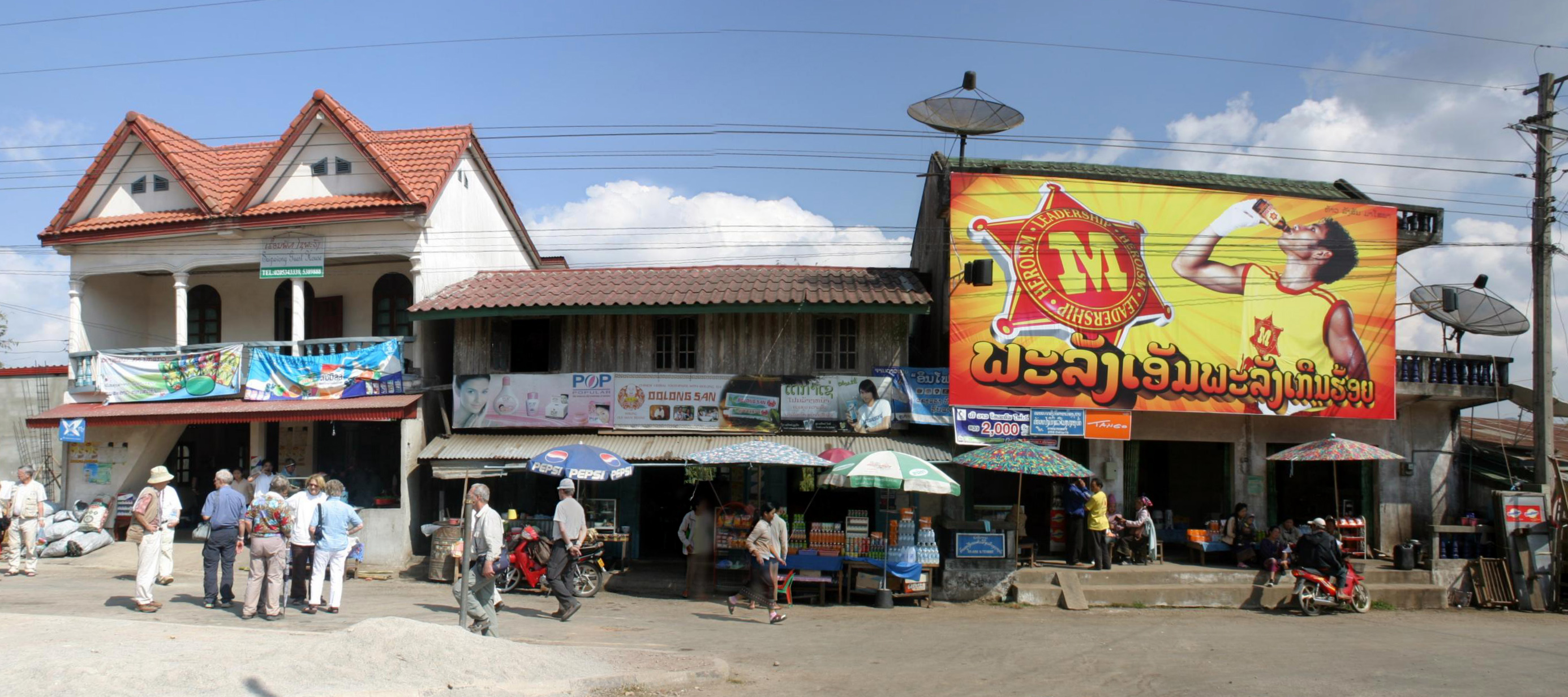 District in Luang Prabang Province, Laos.